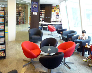 bookmart